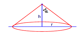 Lightning rod's protection area.